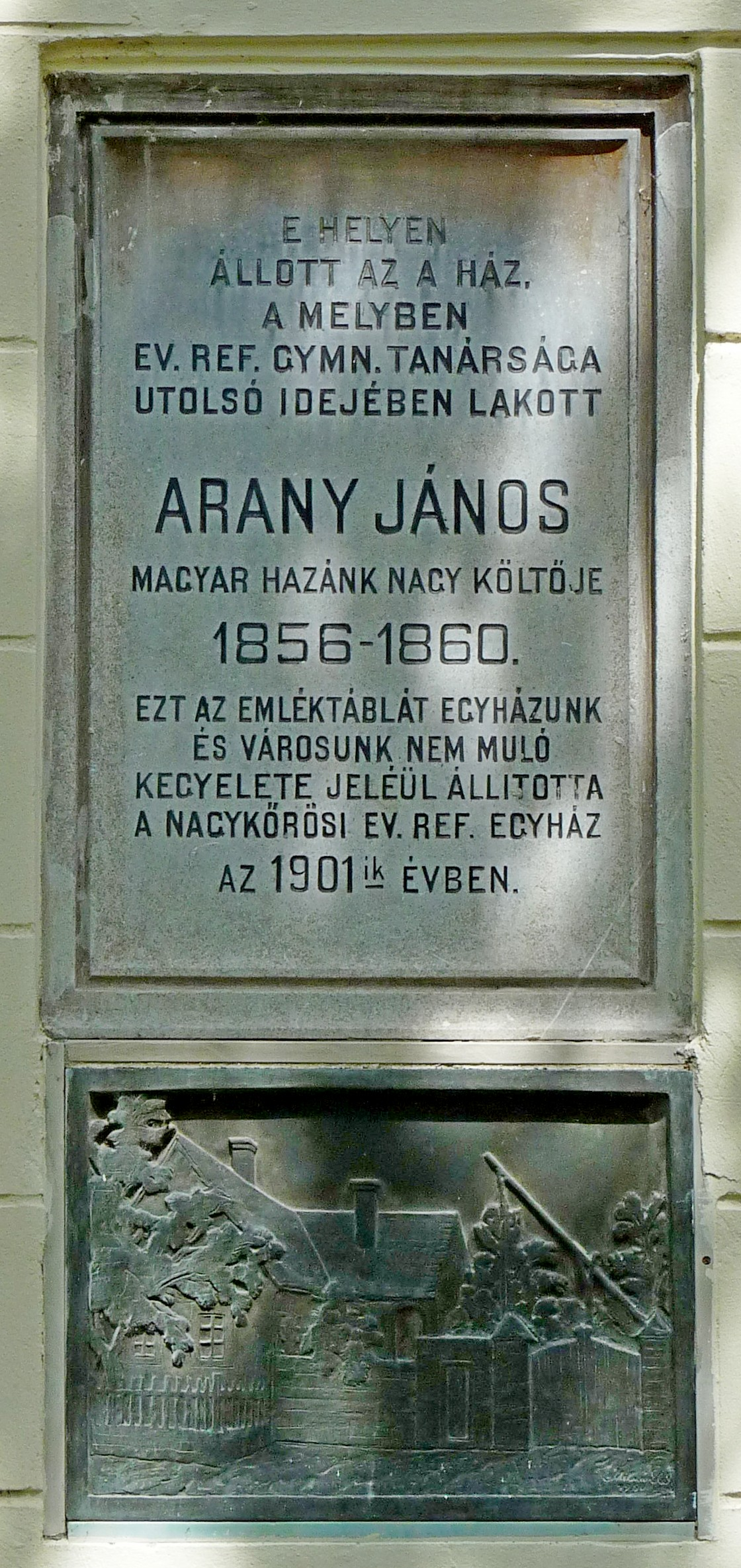 Commemorative plaque to Mr. János Arany (1817–1882) Hungarian journalist, writer, poet, and translator, fixed on the front of the primery scool bearing his name. This building is built on the ground where was the house in which he lived. The bronze relief was sculpted by Mr. Elek Molnár in 1960. (Nagykőrös, Hősök Square Nr 8)